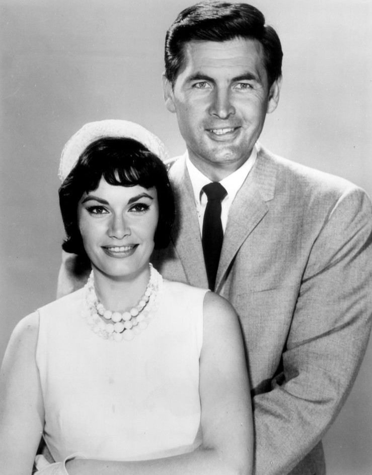 Photo of Sandra Warner and Fess Parker as Pat and Eugene Smith from the television program Mr. Smith Goes to Washington.